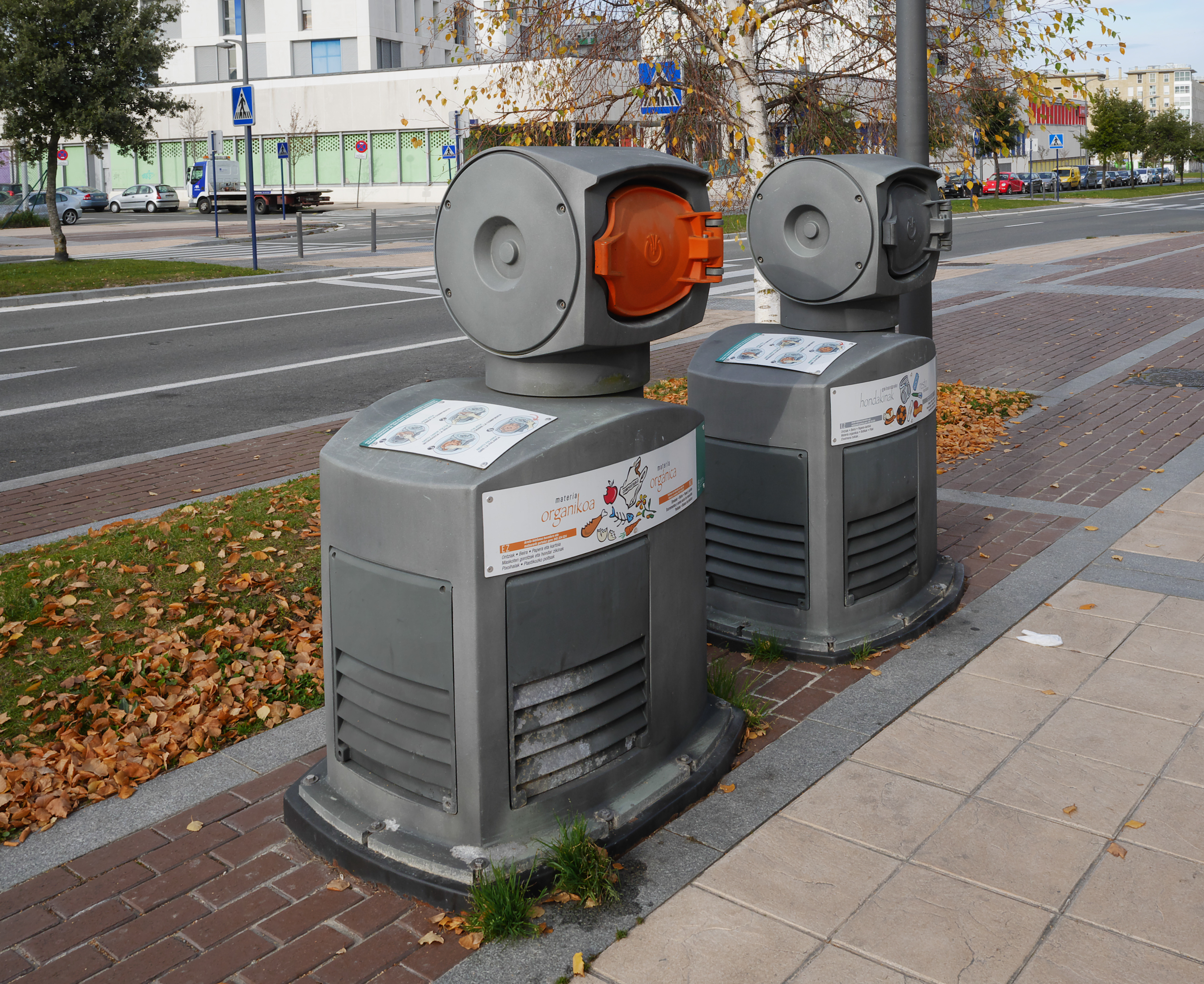 Pneumatic refuse collection system. Zabalgana quarter, Vitoria-Gasteiz, Álava, Basque Country, Spain